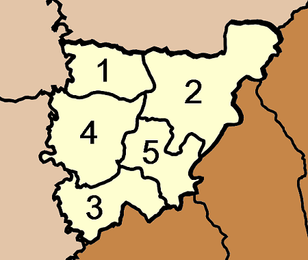 Map of Wiang Sa district, Surat Thani province, with the communes (tambon) numbered Wiang Sa (เวียงสระ) Ban Song (บ้านส้อง) Khlong Chanuan (คลองฉนวน) Thung Luang (ทุ่งหลวง) Khao Niphan (เขานิพันธ์)